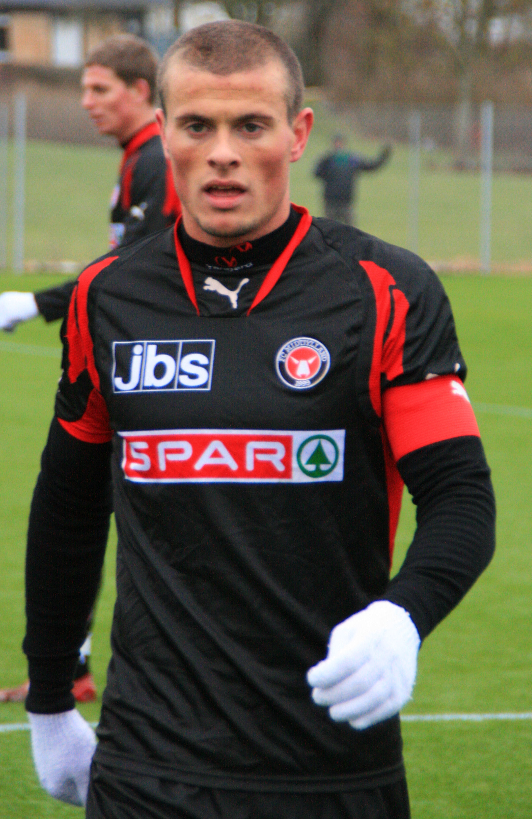 Mikkel Thygesen, players of FC Midtjylland.